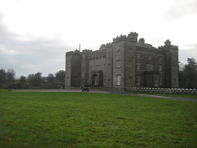 Slane Castle Situated in the Boyne valley overlooking the River Boyne just a few miles upstream from the site of the famous Battle of the Boyne, Slane Castle in its existing form was reconstructed under the direction of William Burton Conyngham, together with his nephew the first Marquess Conyngham. The reconstruction dates back to 1785 and is principally the work of James Gandon, James Wyatt and Francis Johnston. Francis Johnston is responsible for the gothic gates on the Mill Hill. The Conynghams are originally a noble Scottish family, and first settled in Ireland in 1611 in County Donegal. There has been an active association between the Conynghams and the Slane Estate dating back over 300 years, ever since the property was purchased by the family following the Williamite Confiscations in 1701. Prior to this, Slane had been possessed by the Flemings, aristocratic Anglo-Norman Catholics who cast their lot with the Jacobites. Christopher Fleming, 22nd of Slane, 17th Lord, Viscount Longford (1669 – 14 July 1726), was the last Fleming Lord of Slane. The present head of the Conyngham family and occupant of Slane Castle is the 8th Marquess Conyngham. In 1991, a fire in the Castle caused extensive damage to the building and completely gutted the Eastern section facing the River Boyne. With the completion of the 10-year restoration program in 2001, Slane Castle has once again opened its doors. Conyngham, under the name "Henry Mountcharles" (he bore at the time the courtesy title of Earl of Mount Charles), ran a campaign for a difficult seat in Louth on behalf of Fine Gael in the 1992 Irish general election.